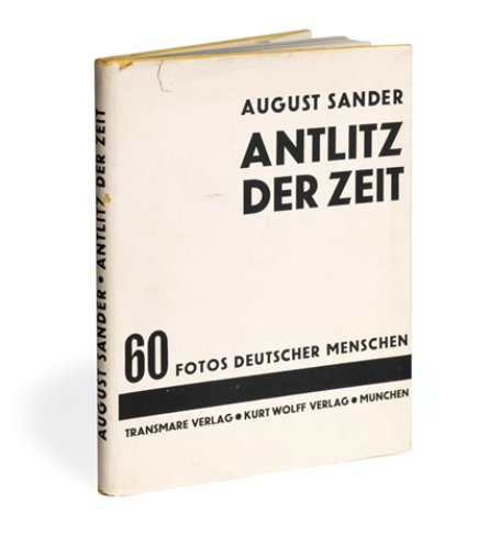 Cover of August Sander: Antlitz der Zeit. 60 Fotos deutscher Menschen (1929)